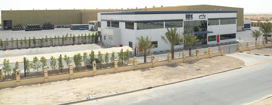 BRC Facility in Dubai